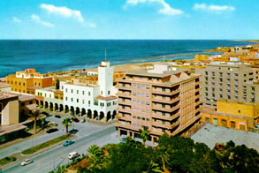 1960s Omar ElMoktar st. in Benghazi.